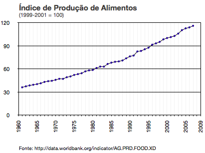 Food Production Index - data from WorldBank